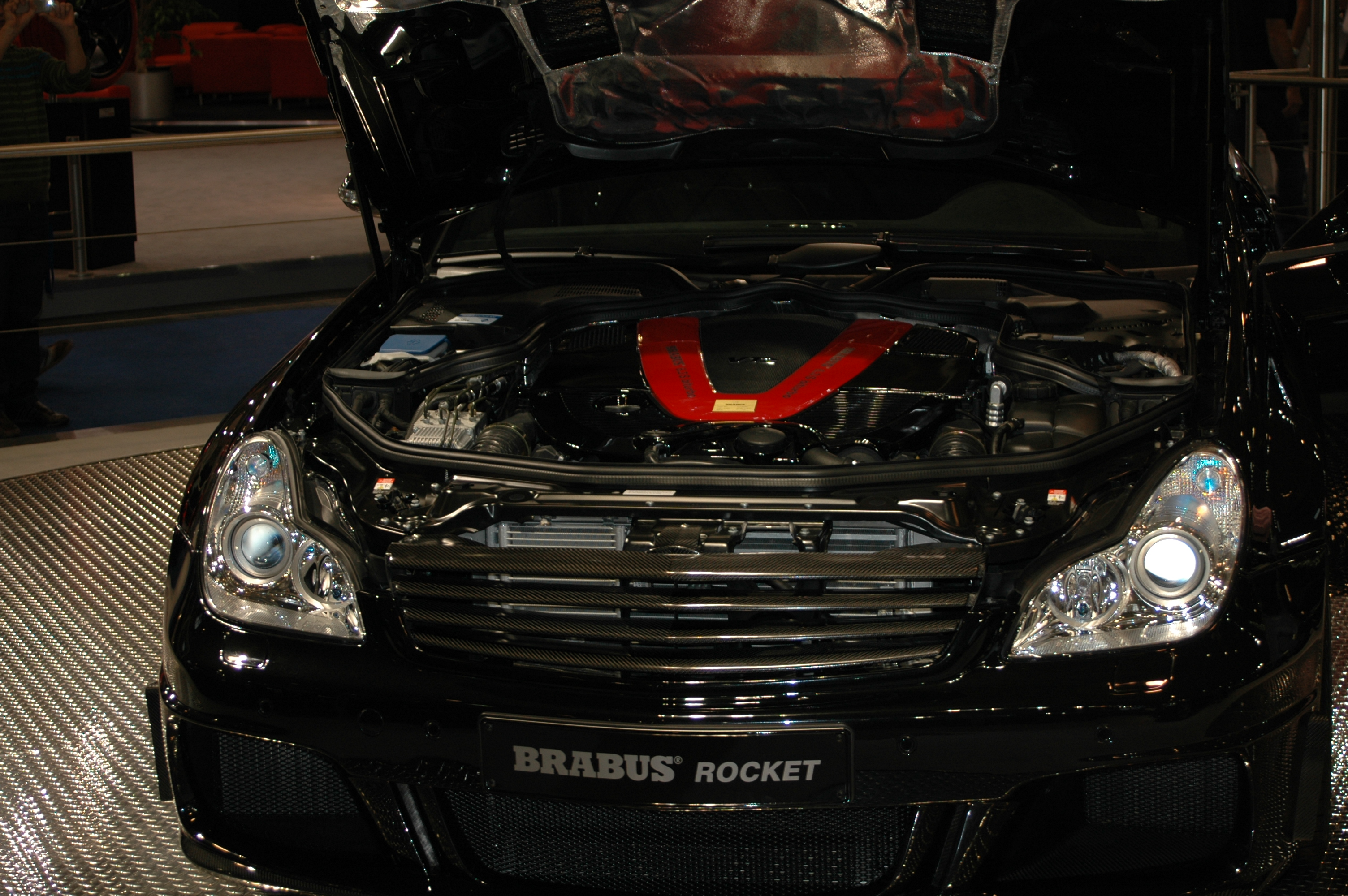 Photo of Mercedes-Benz CLS-Class Brabus in 2007.